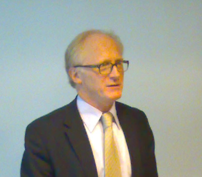 Kai Eide, UN envoy to Afghanistan, Norwegian diplomat